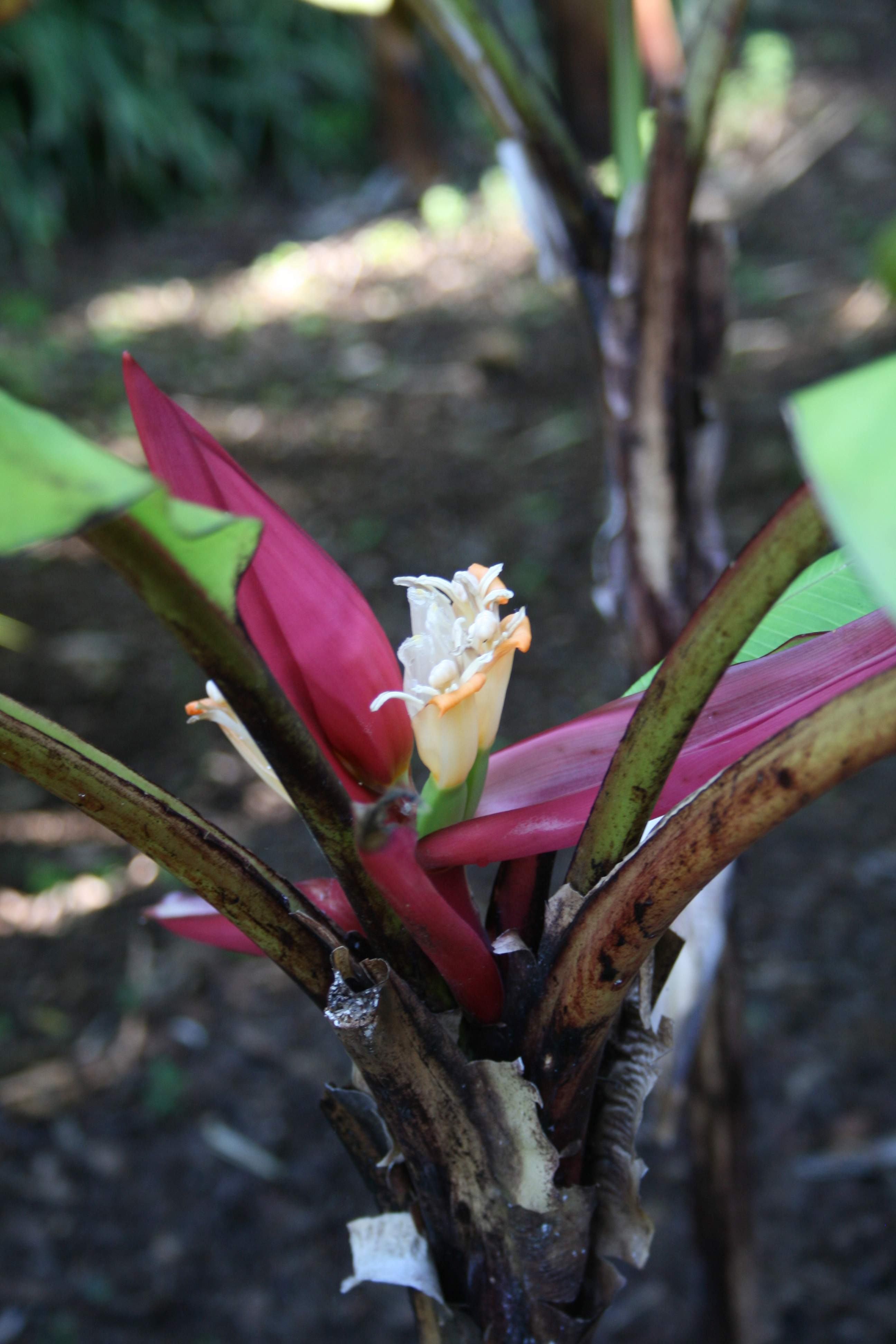 Musa mannii at Jardín de Aclimatación de la Orotava.